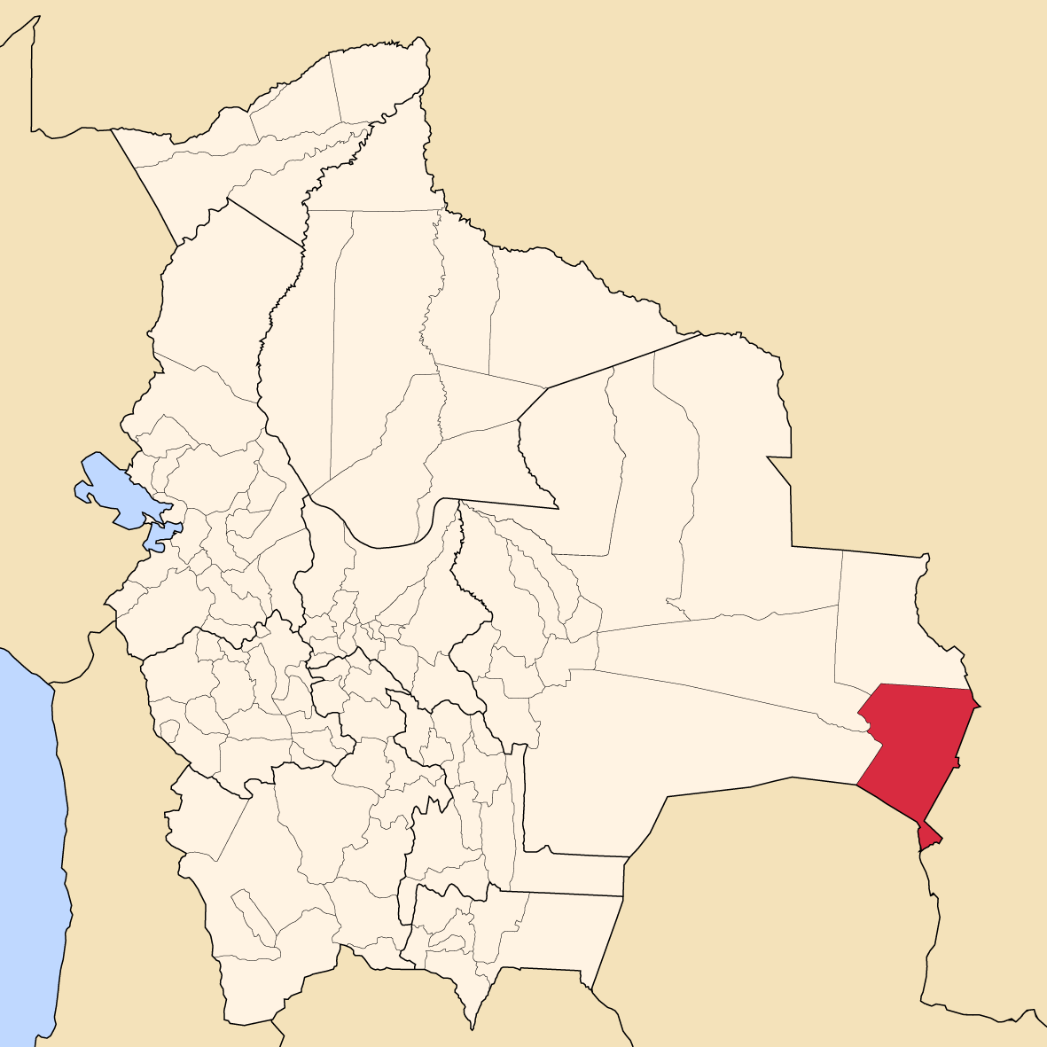 Map of Bolivia showing Germán Busch province, Santa Cruz